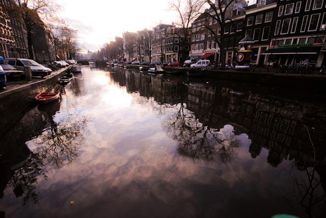 This is an image near a canal in Amsterdam.